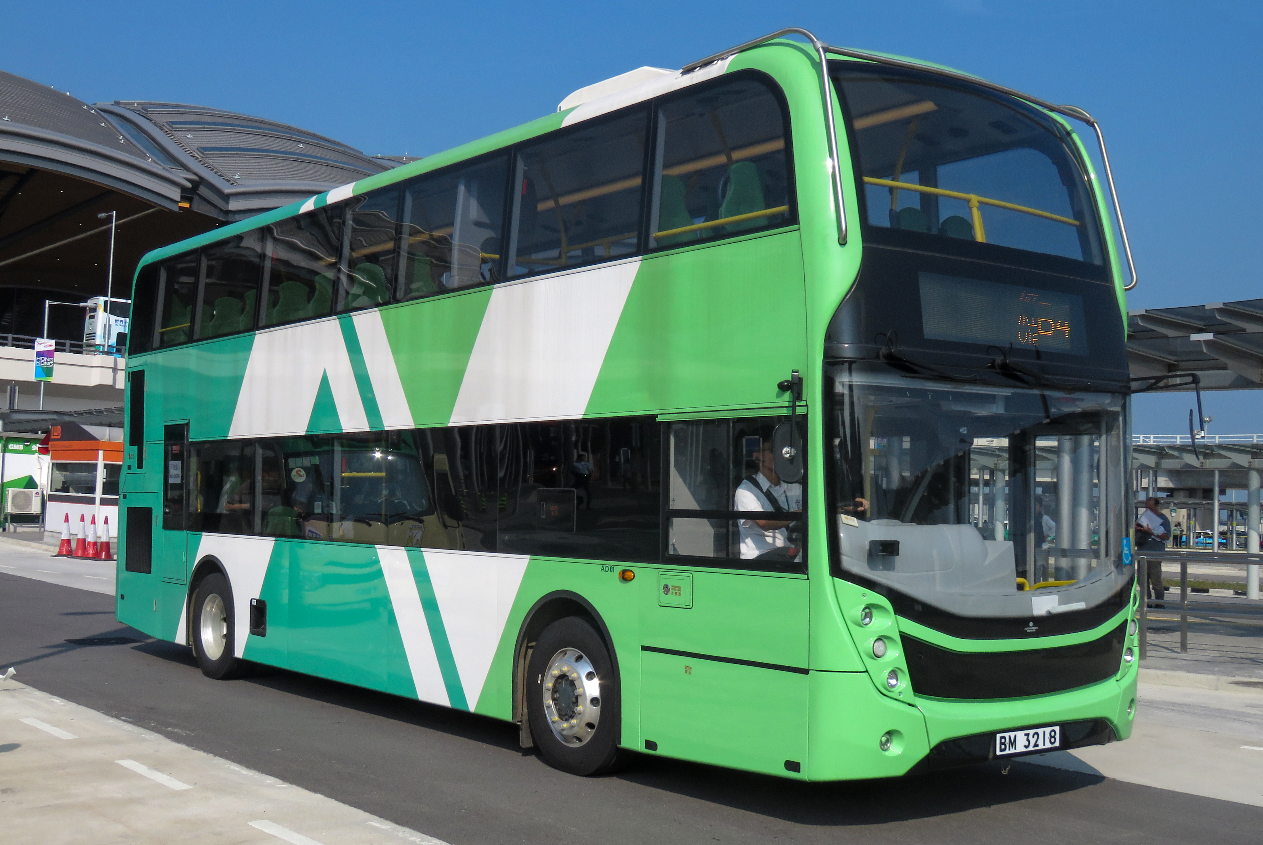 NLB has got some Enviro400s, similar to the ones running NWFB 15.